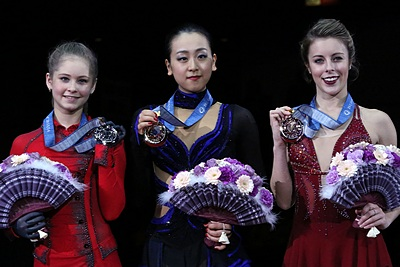 The ladies podium at the 2013-2014 Grand Prix of Figure Skating Final. From left: Julia Lipnitskaia (2nd), Mao Asada (1st), Ashley Wagner (3rd).